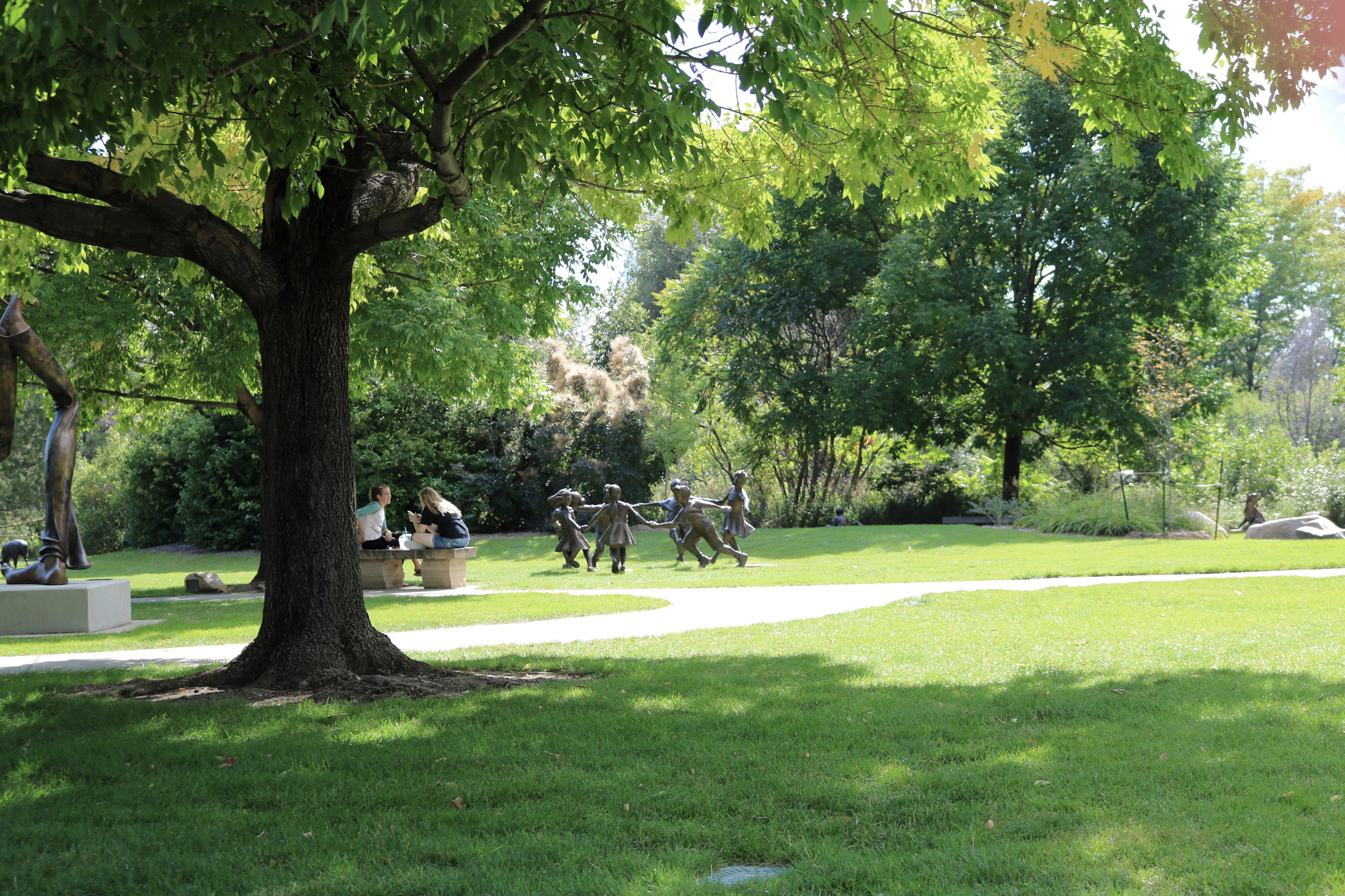 Images taken of Benson Park Sculpture Garden, Benson Sculpture Garden